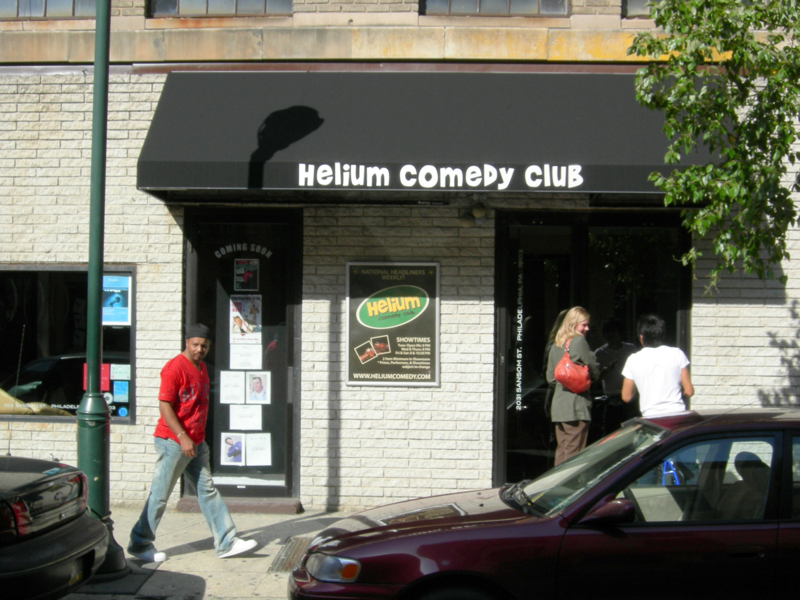 Helium Comedy Club, Sansom Street between 20th & 21st, North side